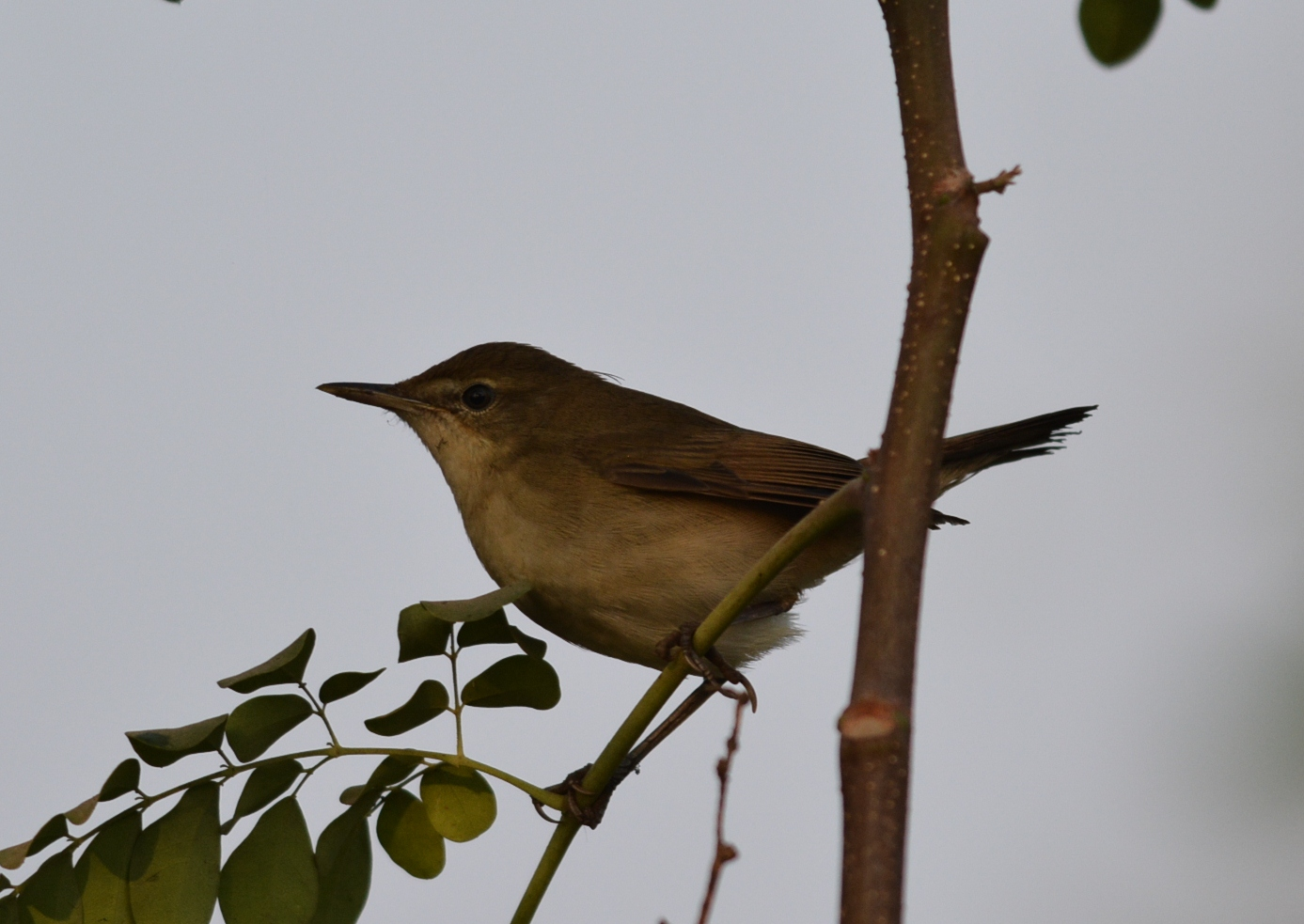 Blyth's Reed Warbler Acrocephalus dumetorum by Dr. Raju Kasambe